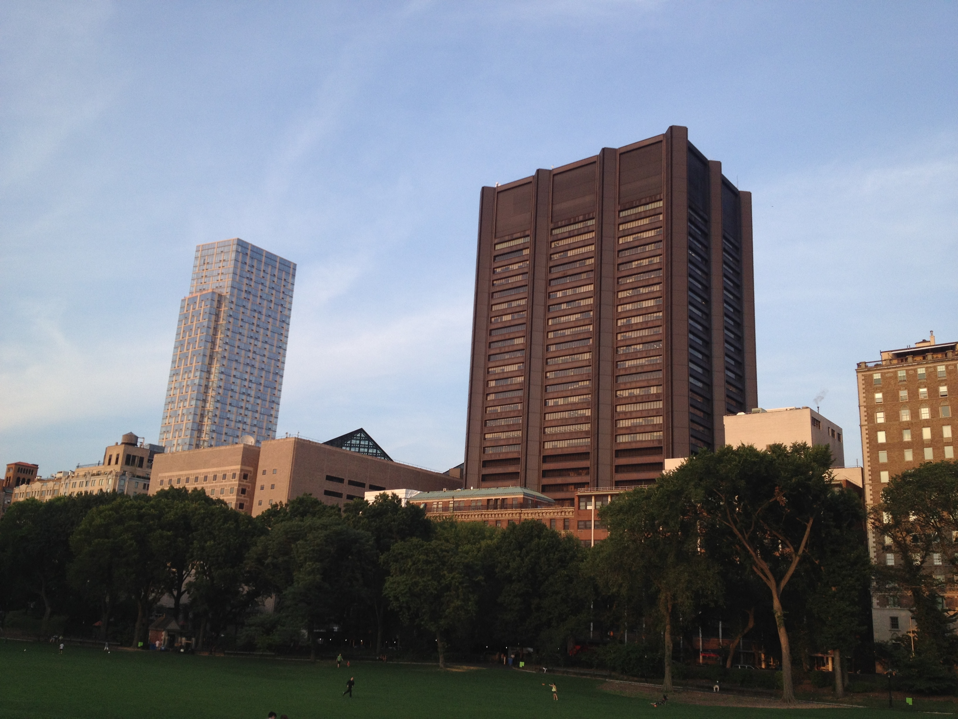 Mt. Sinai Medical Center From Central Park, NY